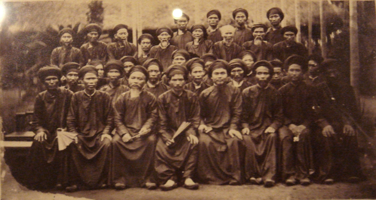 Native_Catholic Priests_in_Occidental_Tonkin